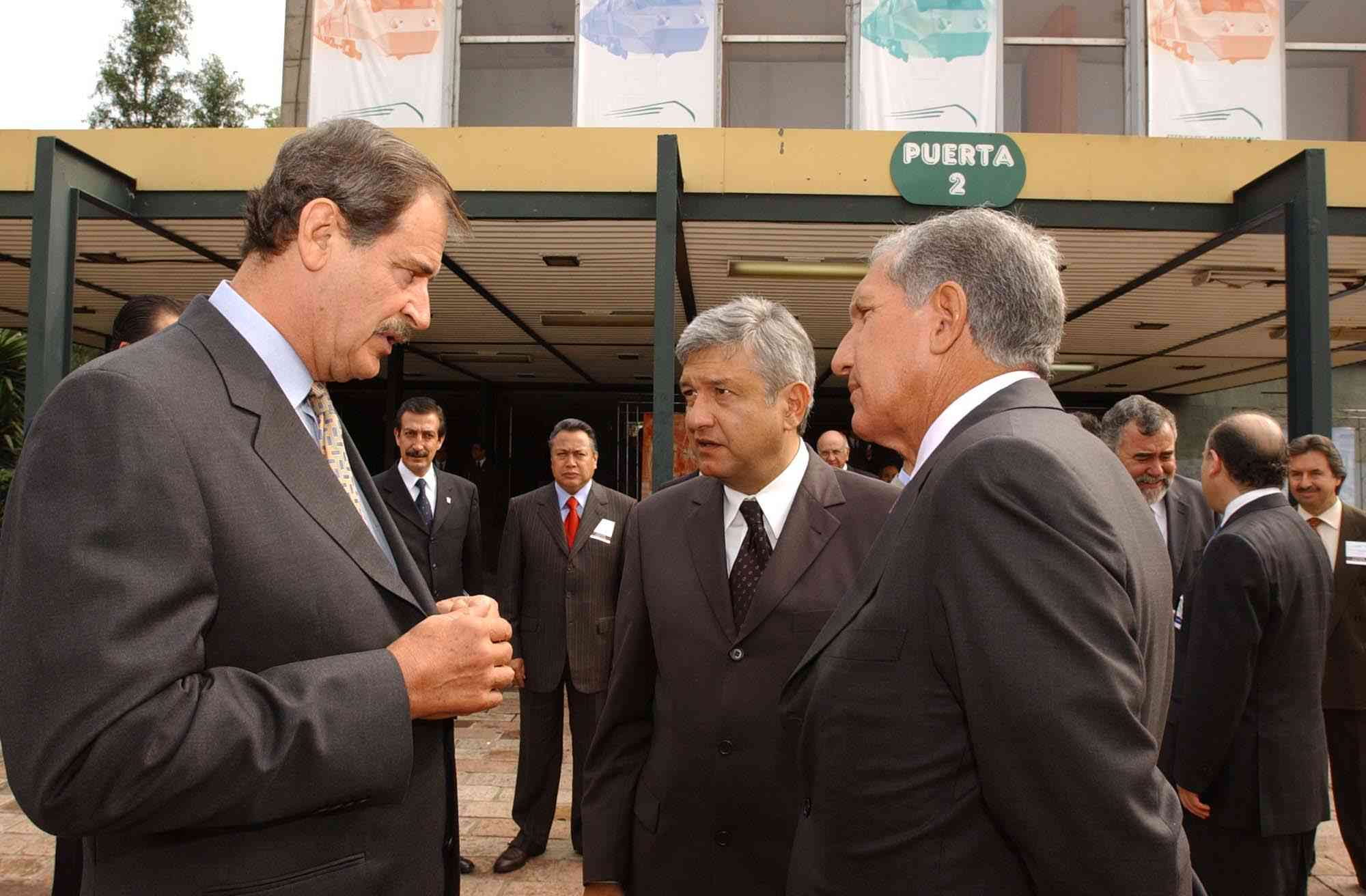 Picture of Mexican former president Vicente Fox, Mexico City's Mayor Andrés Manuel López Obrador talking back and former Governor Arturo Montiel taken on June 11, 2003.